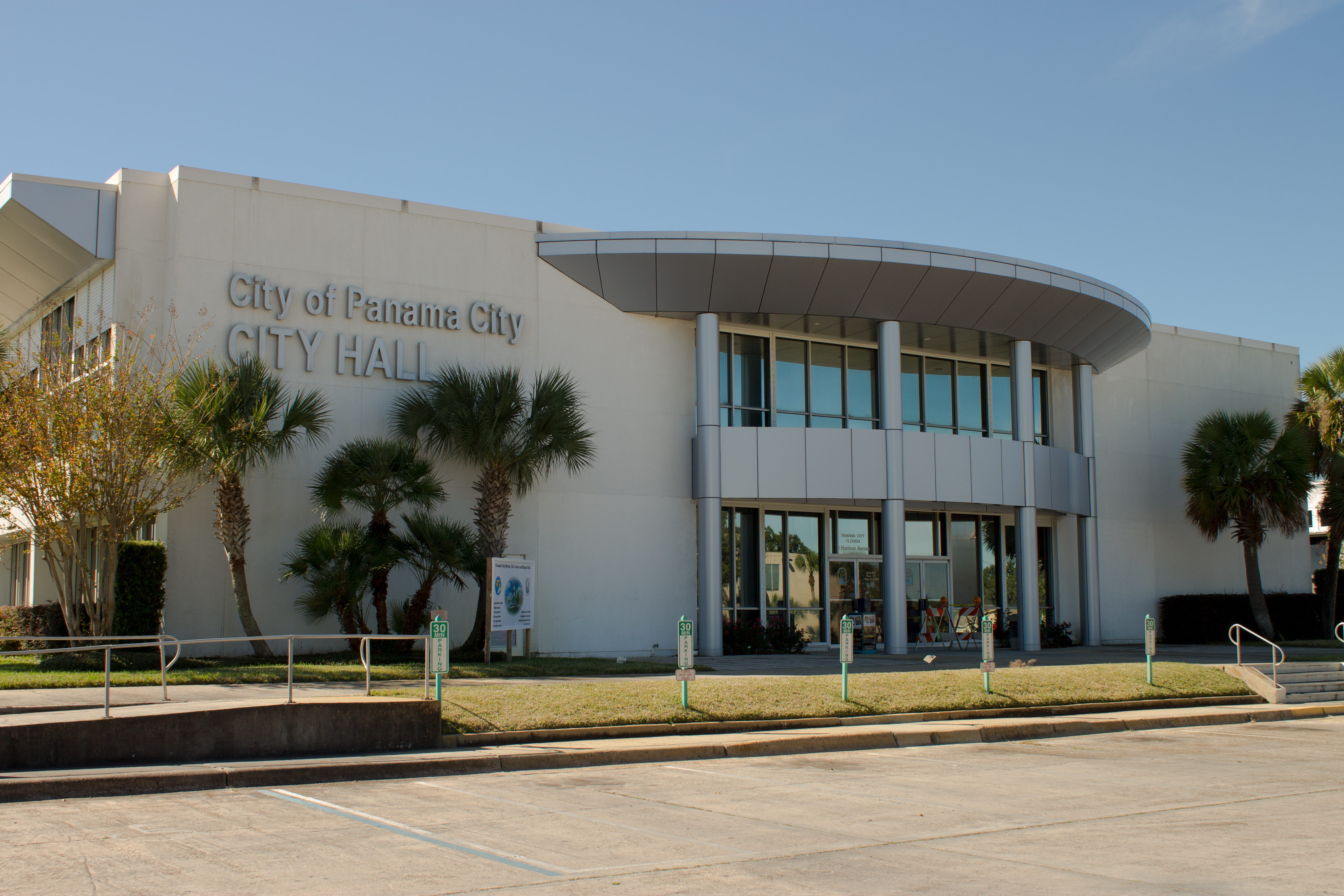 The Panama City, FL City Hall from the main parking lot.